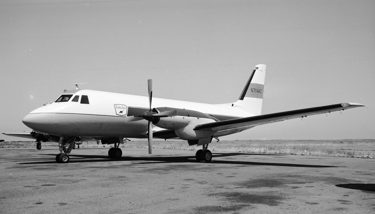 San Francisco July 26, 1961.